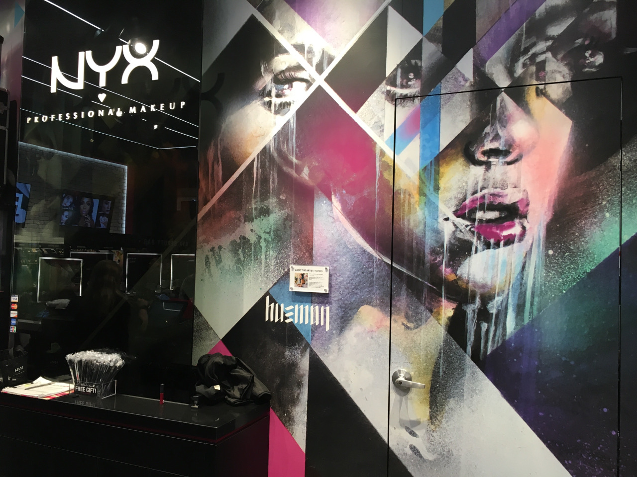 Artwork featured at Nyx cosmetics store at the Mall of America in Bloomington, Minnesota by Hueman